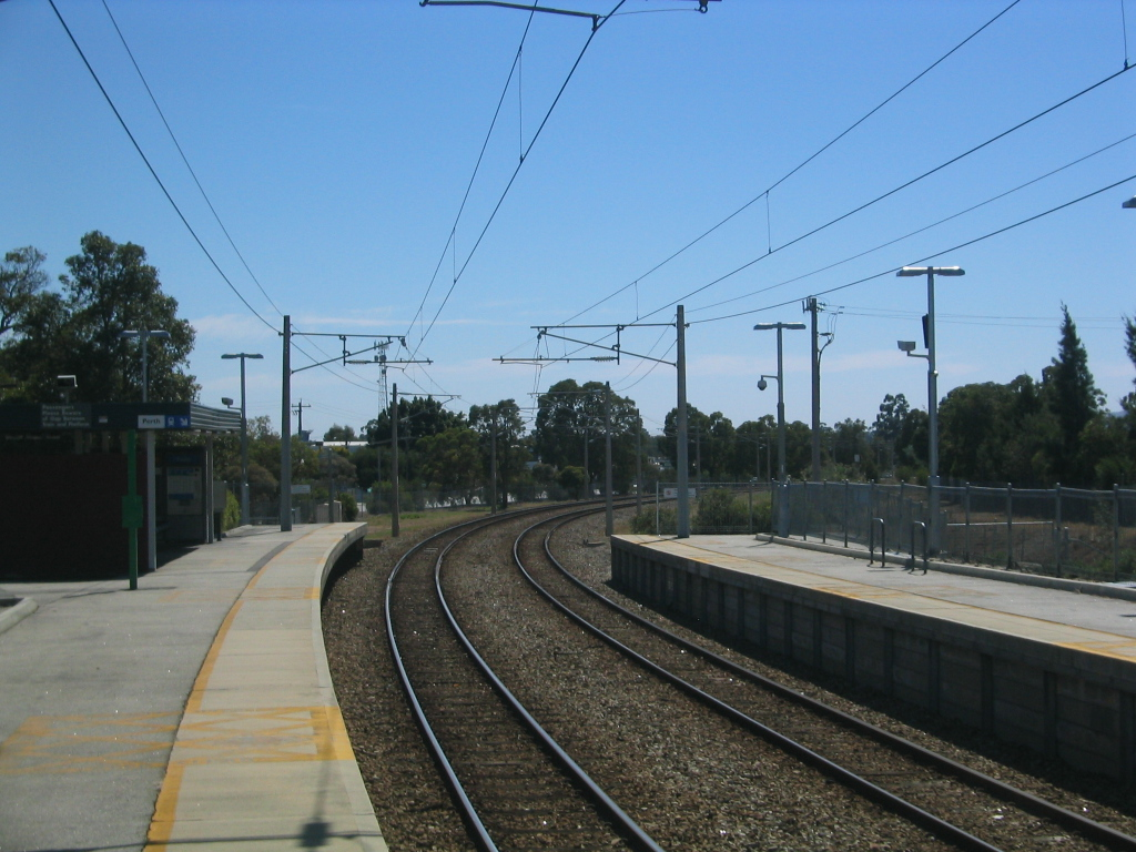 Transperth Sherwood Train Station